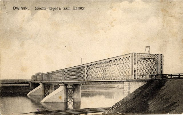 Daugavpils old railroad bridge